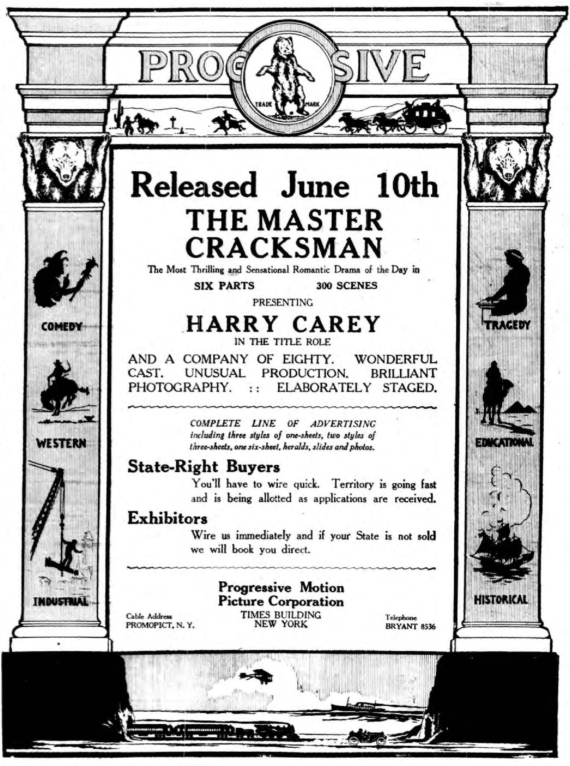 Advertisement for 1914 silent film "The Master Cracksman" appearing in June 10, 1914 issue of Variety (page 52)